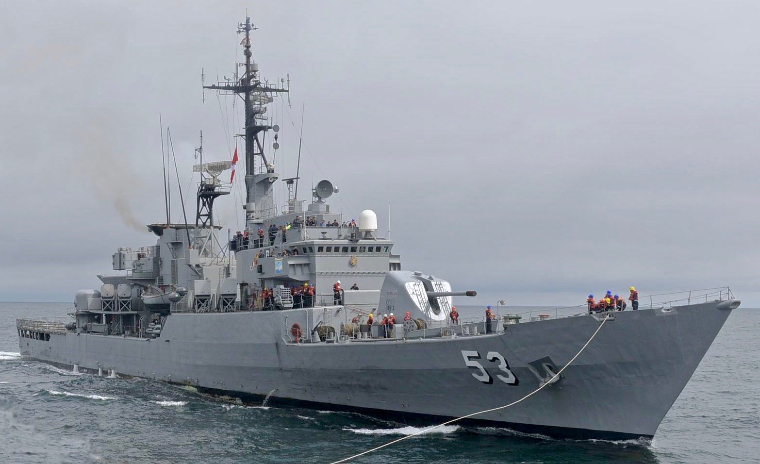 USS Ingraham (FFG 61) conducts a phone and distance line exercise with the Peruvian navy frigate BAP Montero (FM-53) during UNITAS 2014. UNITAS is the U.S. Navy’s longest-running annual multinational maritime exercise, held September 12-26. (U.S. Navy Photo by Mass Communication Specialist 2nd class Adam Henderson/Released)